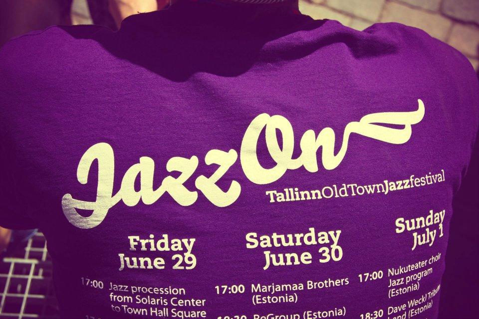 Tallinn JazzOn is a three-day annual music festival held in the Old Town of Tallinn, the capital city of Estonia. As a non-profit event, “Tallinn JazzOn” aims at spreading jazz music, promoting culture, fostering international collaboration between musicians and providing high-quality free-of-charge musical performances to jazz lovers from Tallinn and other cities. In 2013, the music festival “Tallinn JazzOn” will take place from 28–30 June in Tallinn Old Town.